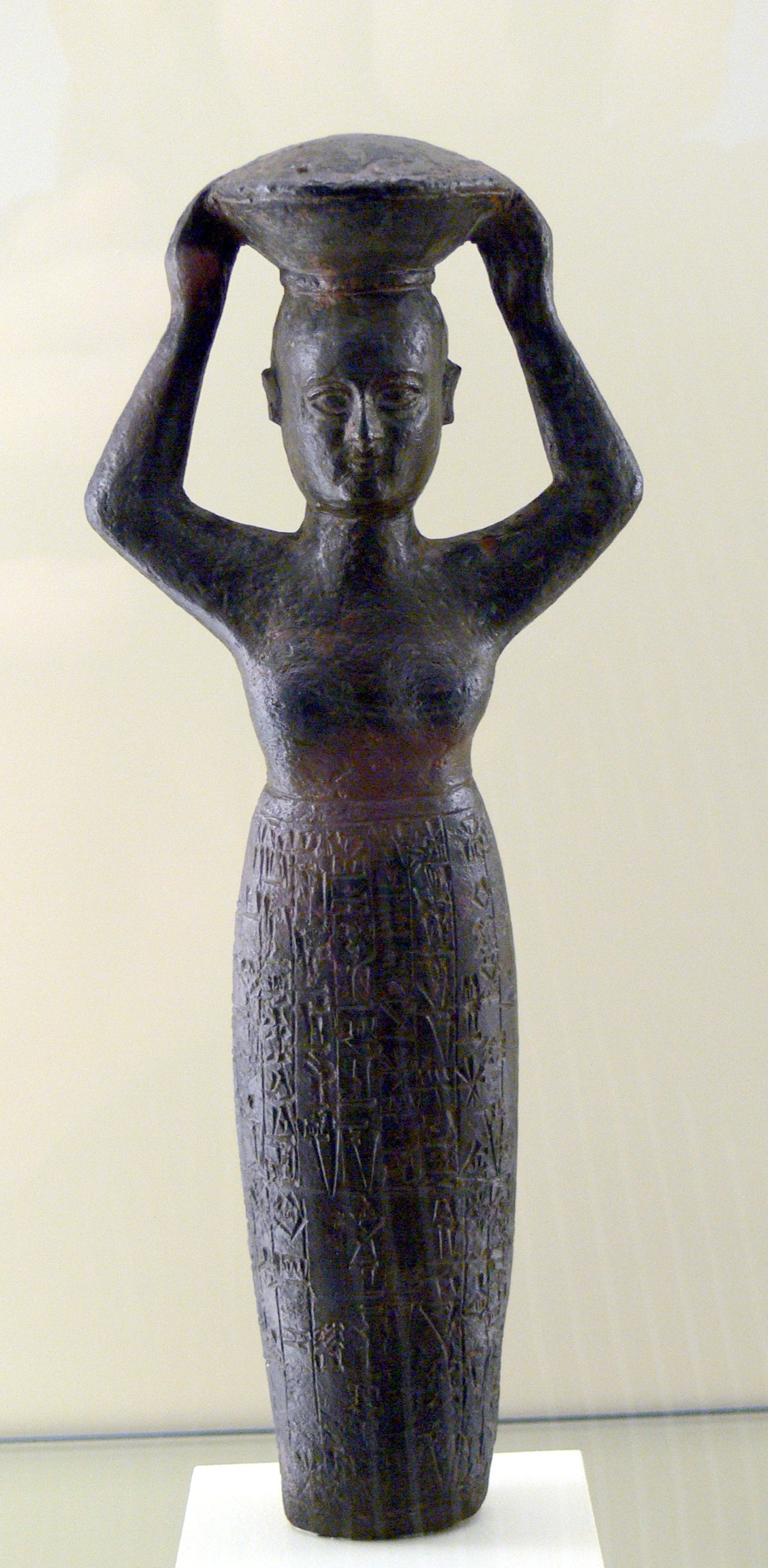 Museum of Ancient Near East ( Berlin ). Foundation figurine of a woman carrying a basket, by Kudur-Mabug, ruler of Larsa ( 1770 BC ).